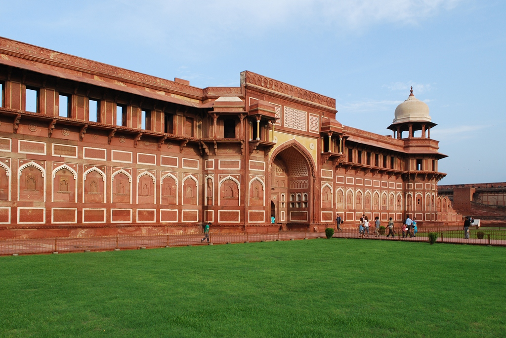 Jahangiri Mahal at Agra Fort